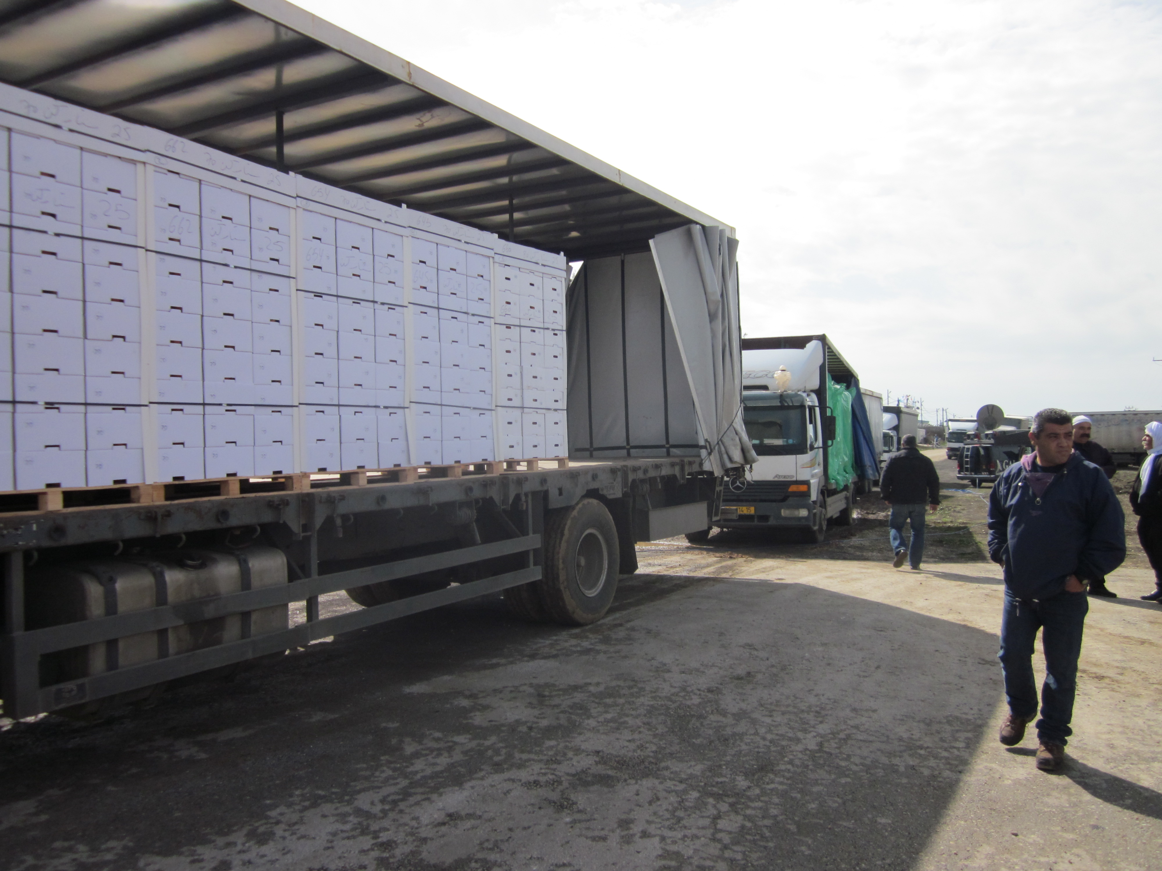 February 14, 2011. Apples grown by Israeli civilians in the Golan Heights being exported to Syria via the “Quneitra” crossing, in an annual exchange directed by the Israeli government and at the request of the International Red Cross (IRC). 30 trucks, carrying 12,000 tons of apples will cross into Syria every day over the span of several weeks. 2011 marks the sixth consecutive year in which Israel-grown apples are exported to Syria, and since the beginning of the project the amount of apples exported from Israel has doubled. For more details, see our blog.